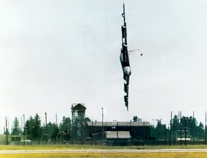 B-52 bomber, piloted by Bud Holland, about to crash at Fairchild Air Force Base on June 24, 1994, killing all four crew members. The co-pilot's hatch cover, released too late to allow his escape, can be seen below the vertical stabilizer. The photo was taken by a U.S.A.F. photographer for an official "fini-flight" ceremony for Colonel Wolff, one of the crew, that was to have followed the flight.